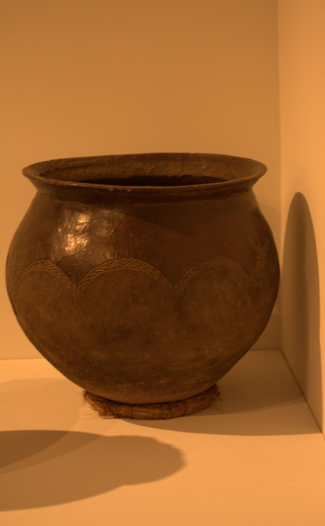 Beer brewing pot of the Lobi people of Burkina Faso, Africa